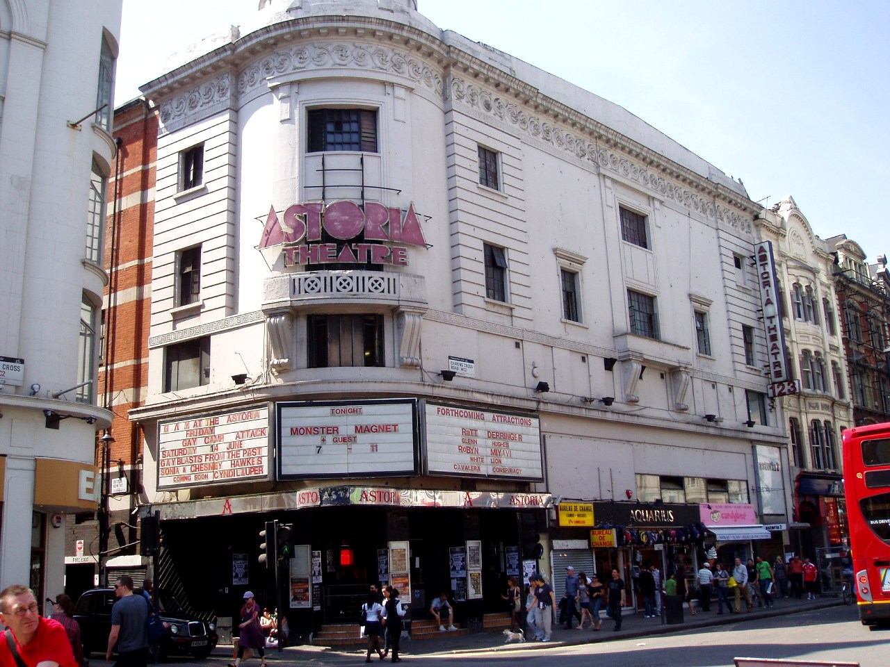 The grand Astoria Theatre, once a cinema and dance hall and latterly a music venue (split into Astoria and Astoria 2), but now closed. It is set to be replaced by an enlarged Tottenham Court Road station for the new Crossrail line. Address: 157-165 Charing Cross Road. Former Name(s): The Astoria Theatre. Links: British History Cinema Treasures (history)